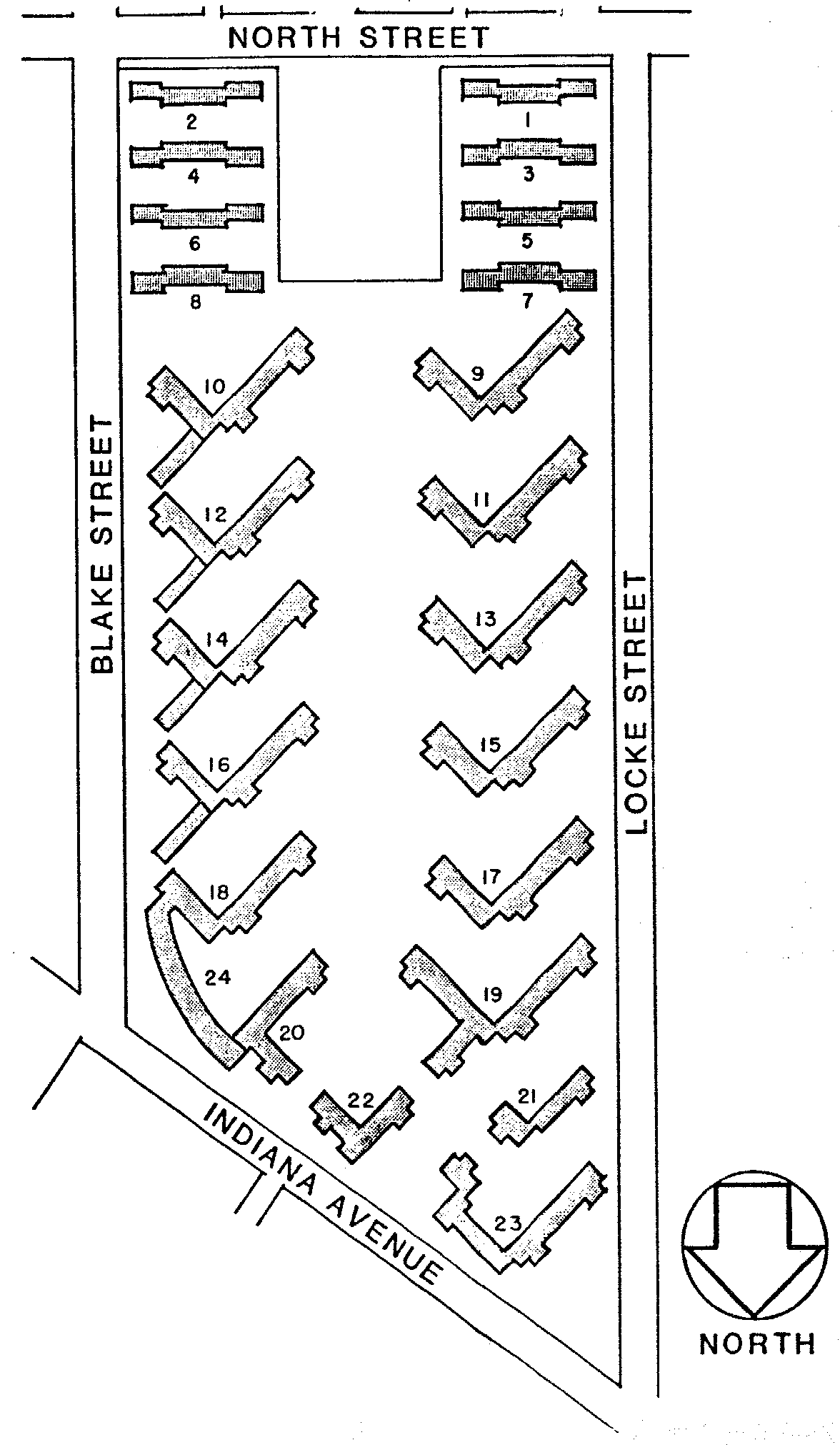 Site plan of the Lockefield Garden Apartments, a historic public housing project in Indianapolis, Indiana, USA, prior to its partial demolition in the 1980s.